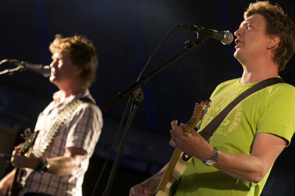 Danish singer-songwriters and comedians, Roben (Rasmus Normann Nielsen) & Knud (Anders Vibholm).